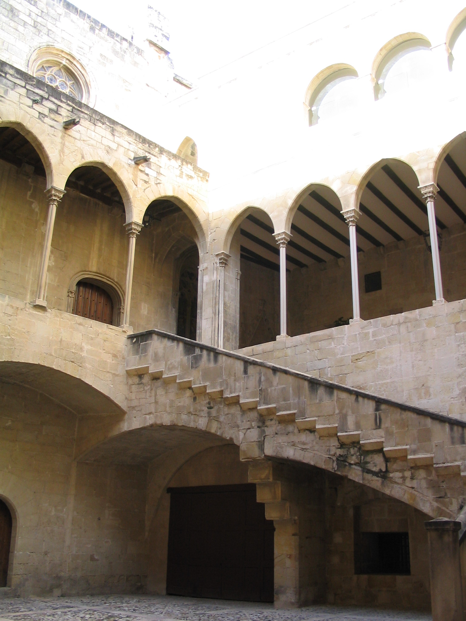 Pati del Palau Episcopal palace of Tortosa. Gothic